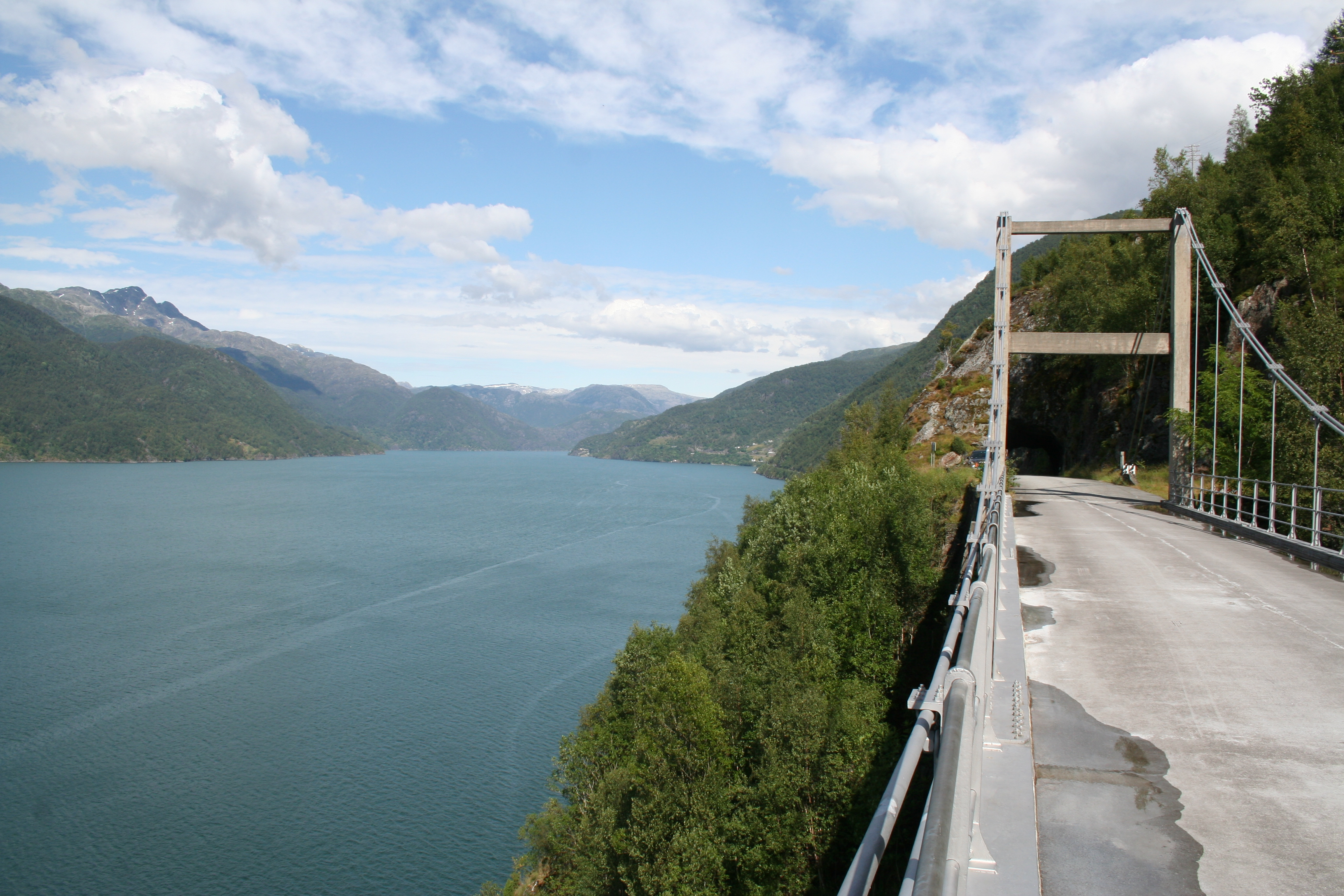 The picture shows the view over Åkrafjorden from Trolljuvet bridge on the old road. The picture is taken towards north-east. Åkrafjorden lies in Hordaland county in Norway.